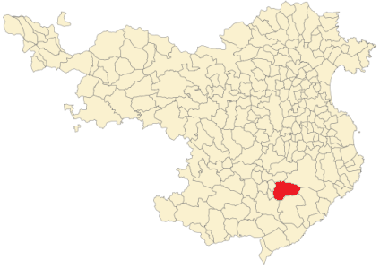 Cassà de la selva